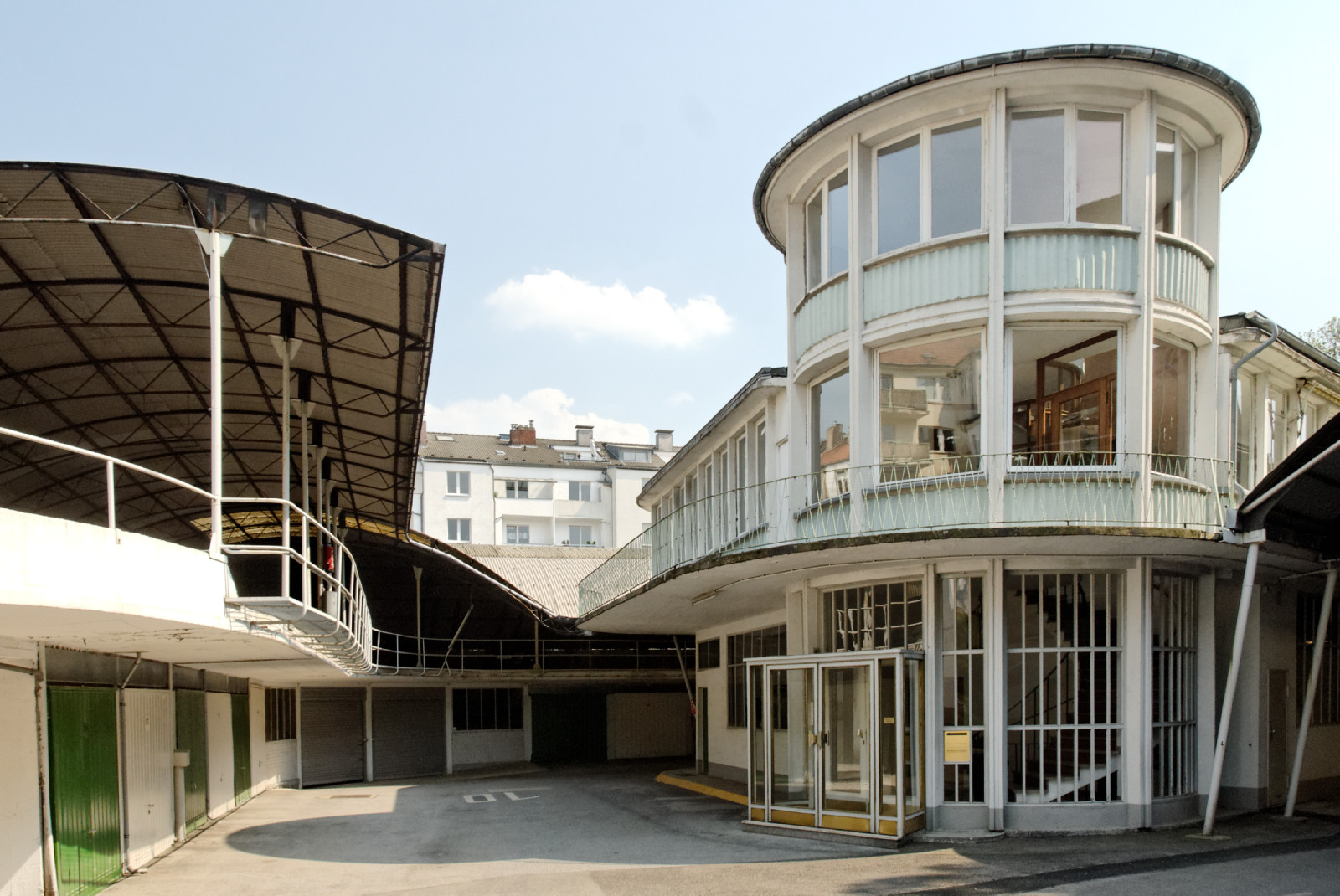 Garagenanlage, Erftstraße 9 to 11 in Düsseldorf-Unterbilk, Germany